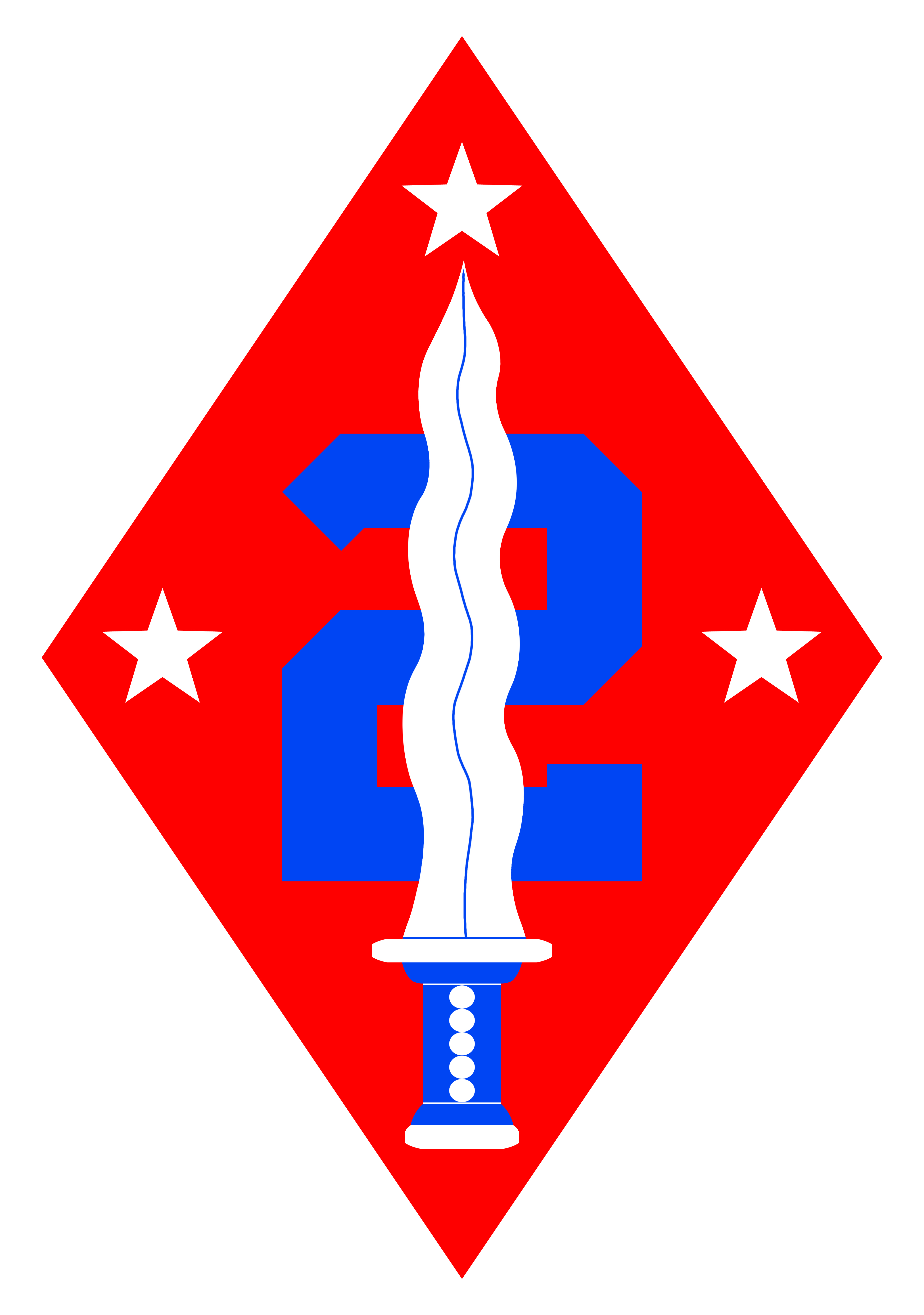 2nd Philippine Division emblem from 1941-42 (version 2), possibly not developed until late in that period or just after; color versions of this are a matter of record, and bronze version(s) of these emblems are seen on monuments around the Philippines.